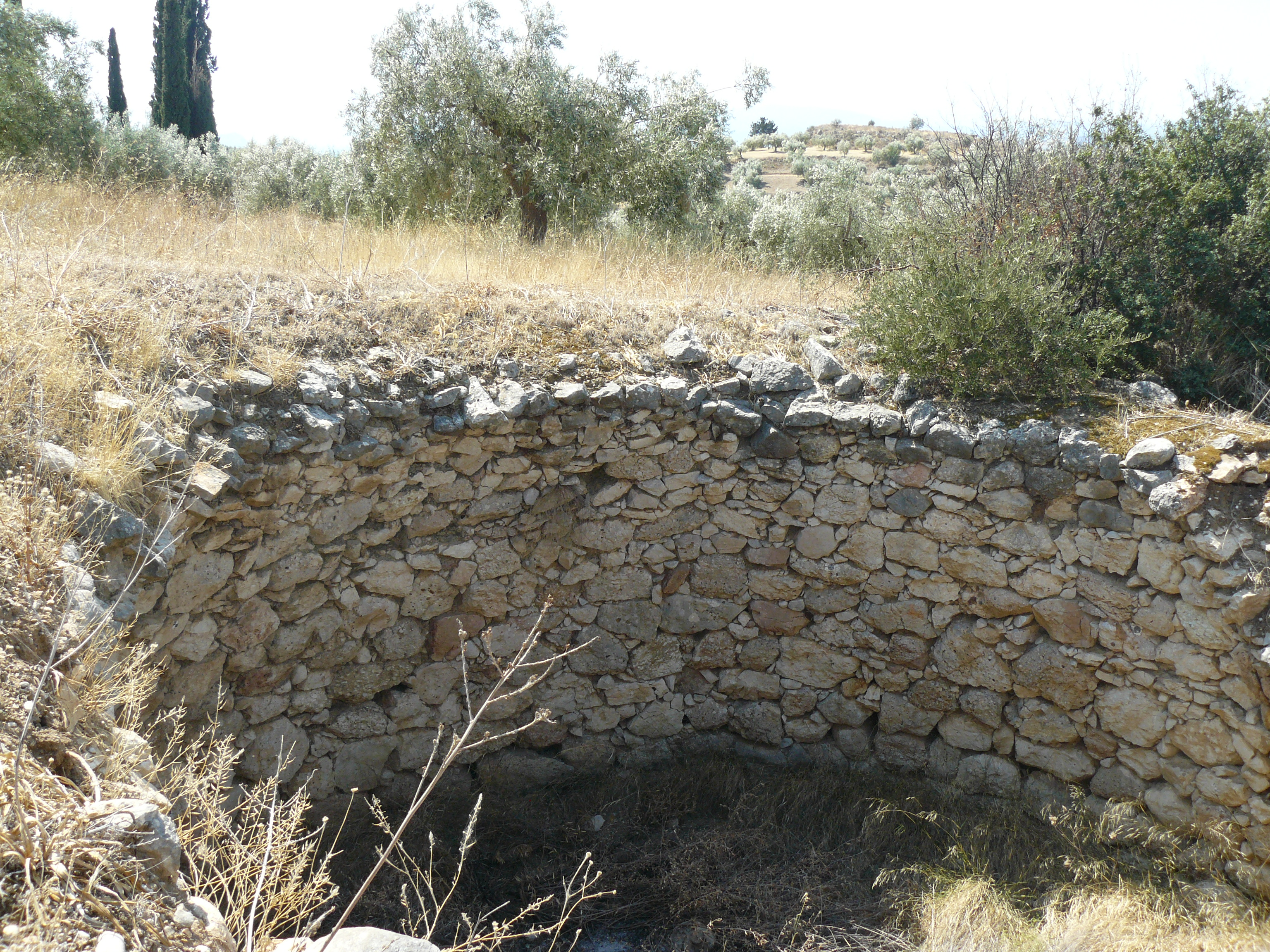 Mycenae: Tholos tomb called Cyclopean Tomb.